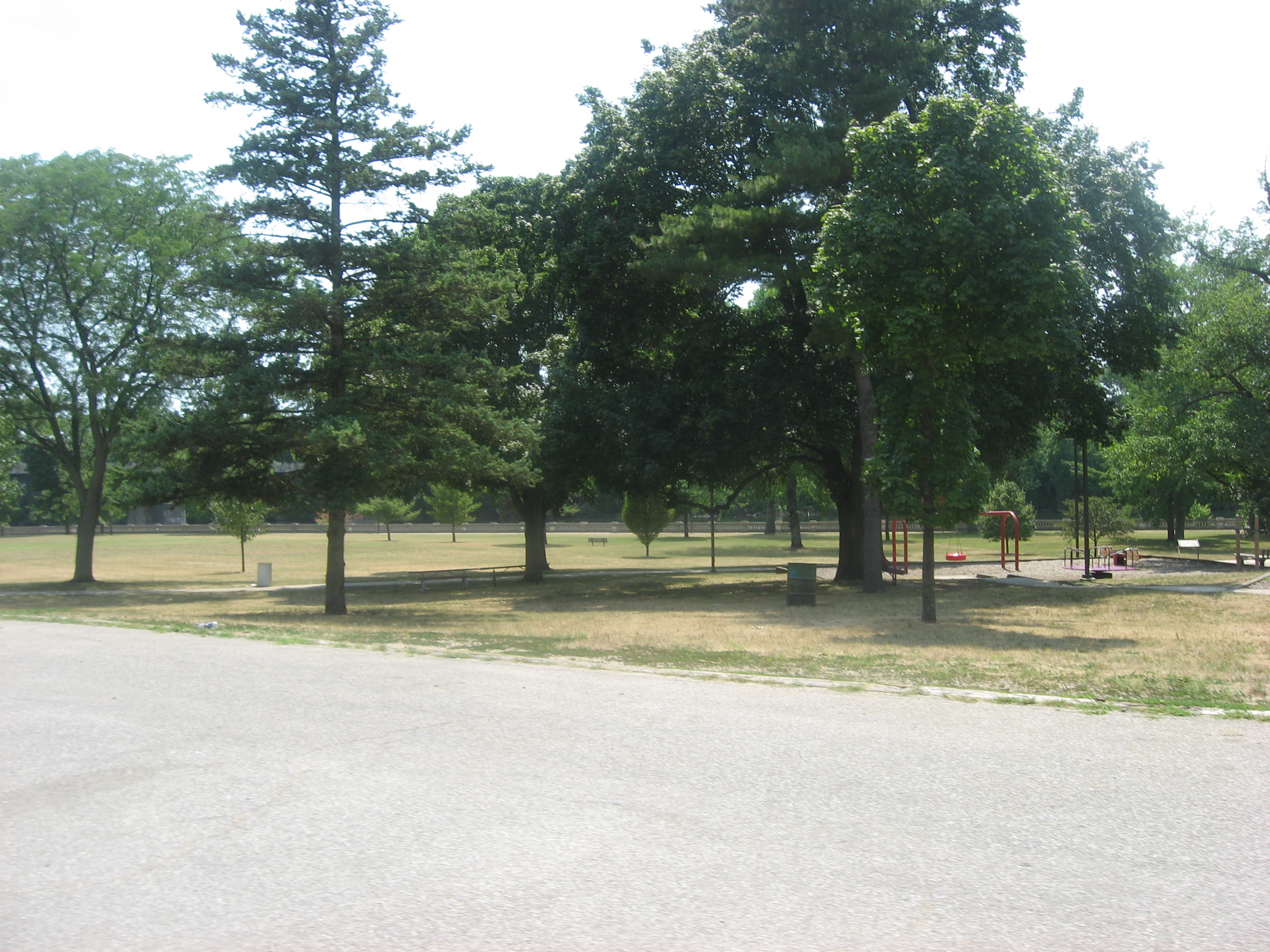 Fields at Howard Park, located on the western side of St. Louis Boulevard in South Bend, Indiana, United States. The park is a core portion of the Howard Park Historic District, a historic district that is listed on the National Register of Historic Places.